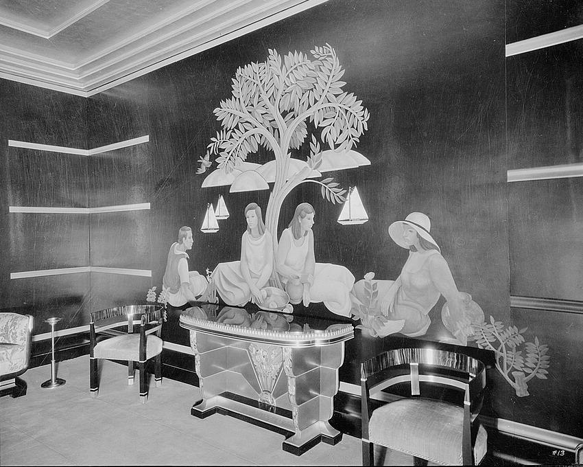 photograph of Paramount Theatre. Women's Smoking Lounge in basement with mural by Charles Stafford Duncan